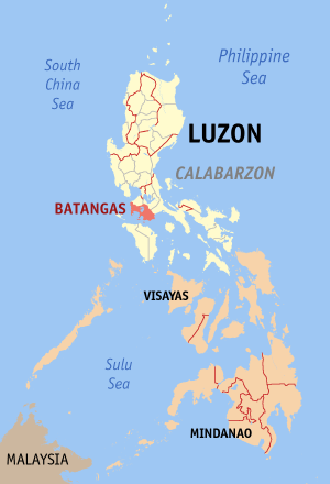 Map of the Philippines showing the location of Batangas